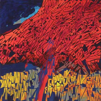 Oil on canvas painting by Vancouver-based painter, Bratsa Bonifacho, from the Cloud series (2019).